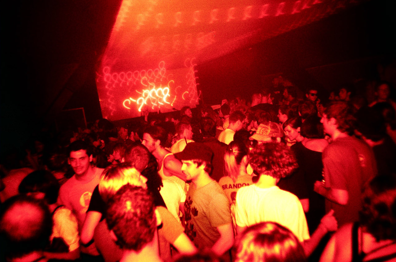 Watergate Club in Berlin, Germany